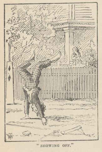 Illustrations de The Adventures of Tom Sawyer, 1876.